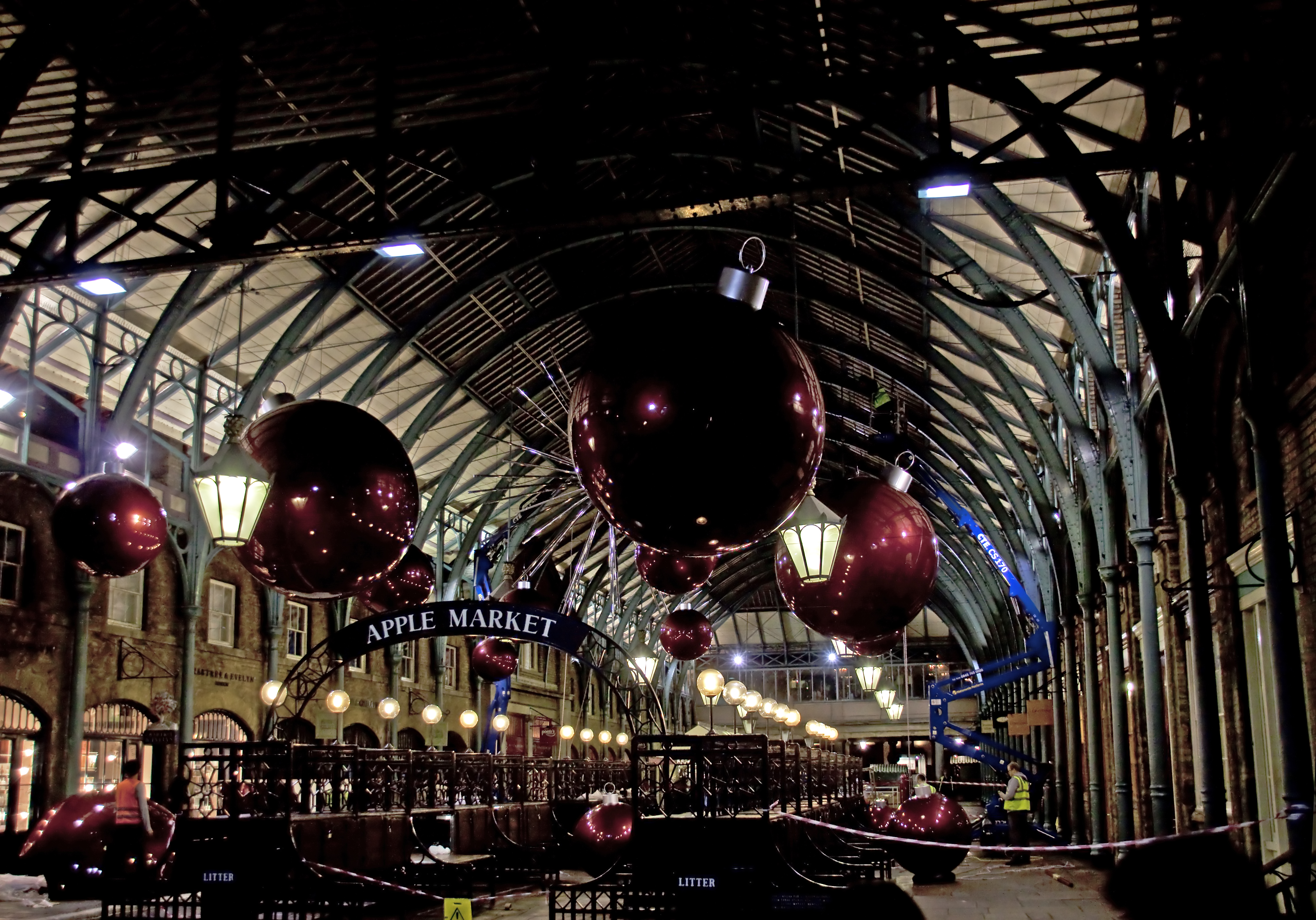 Christmas decorations being put up in Covent Garden after all the markets have closed